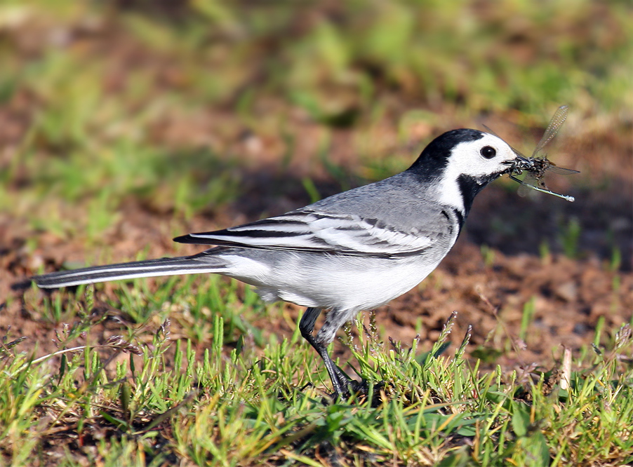 White Wagtail